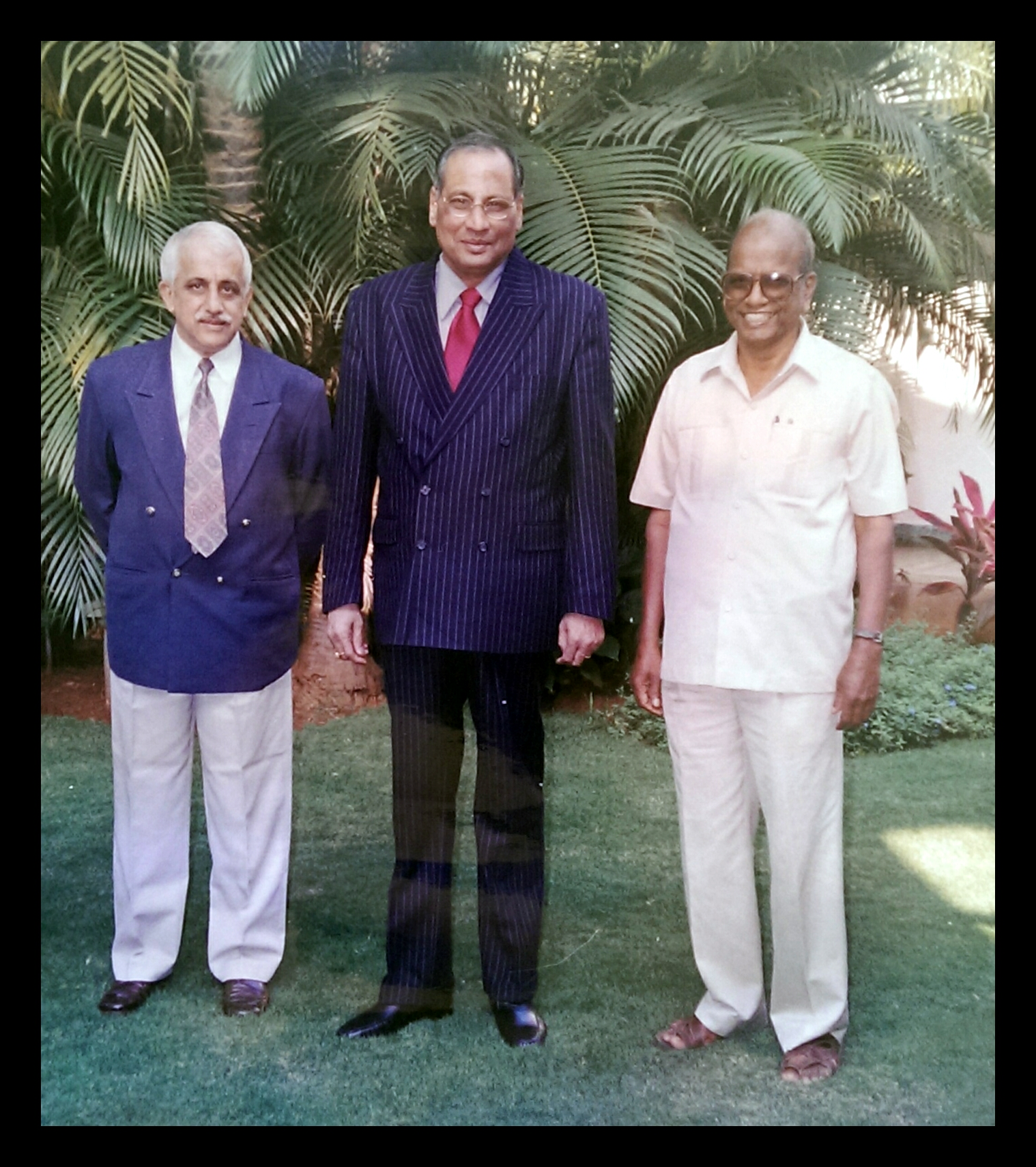 V.V.Shenoy with his class mate of his school days my S.R.Nayak Former high court justise and current Chief of Law Comission India and Sr. Judge Chidanand Rao